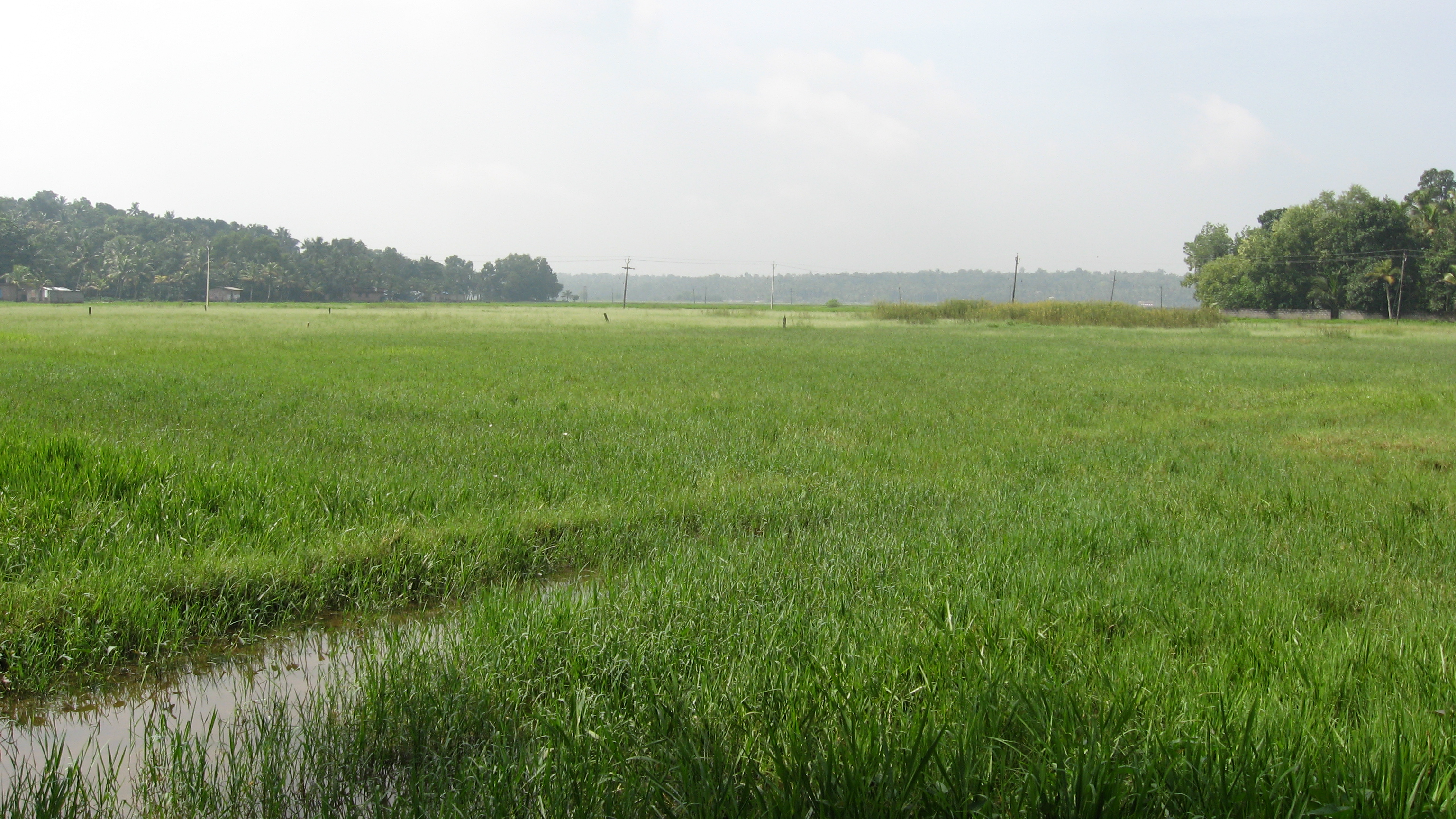 Punthalathazham Perumkulam paddy field